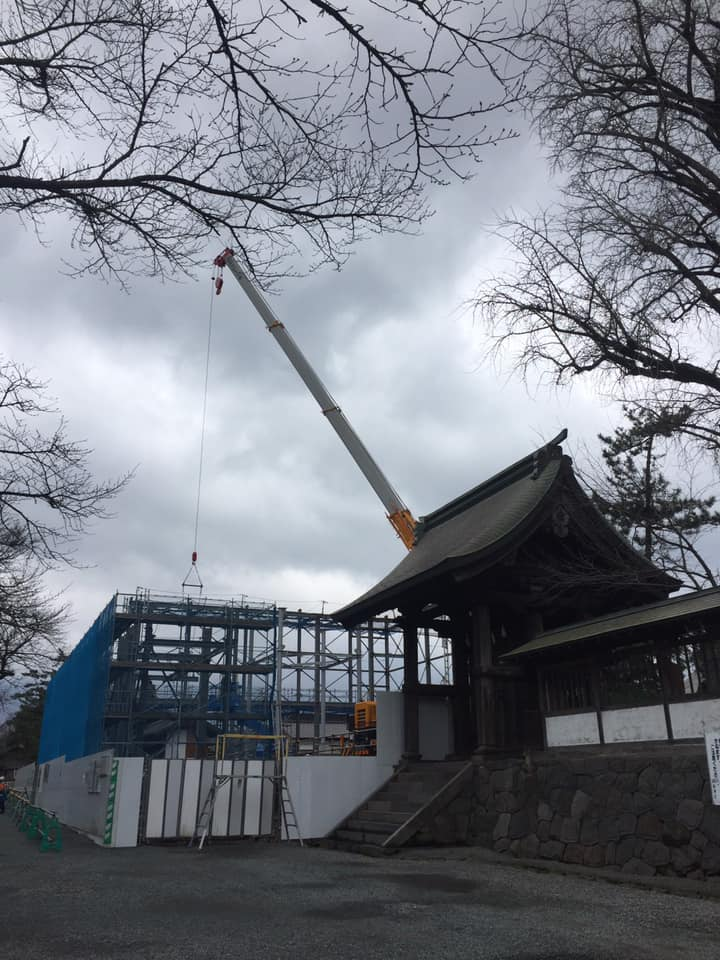 Construction work being done on the grounds of Aso Shrine in Kumamoto.